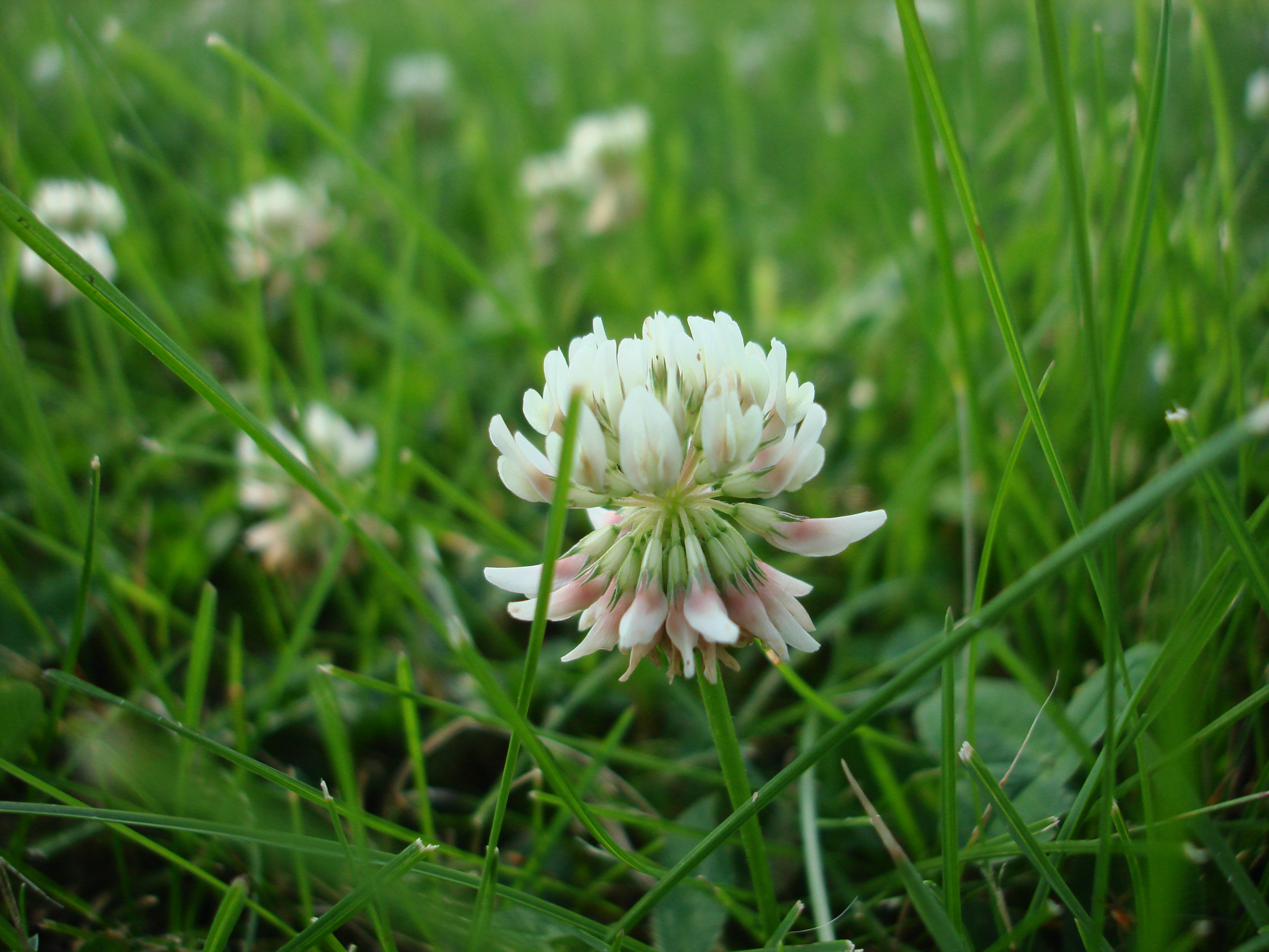 Closeup of a white clover